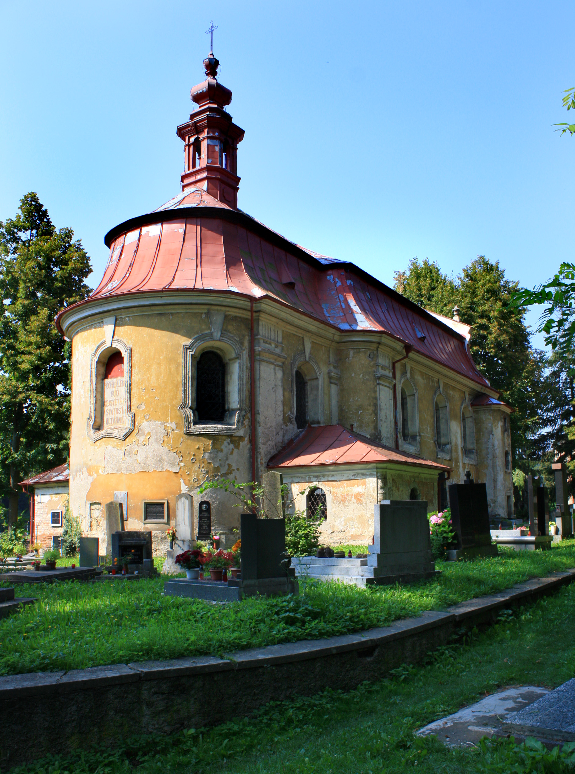 Church of Saint George in Krnsko, Czech Republic